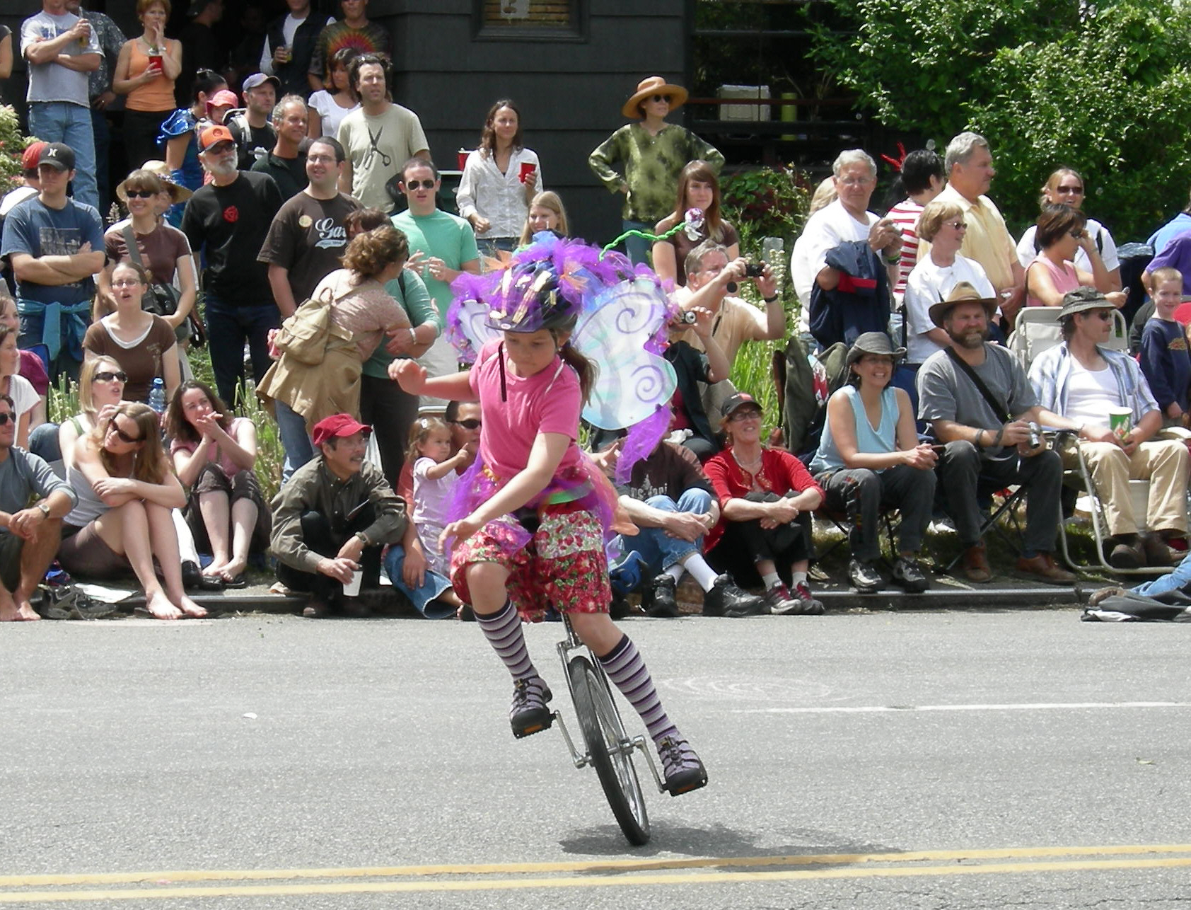 Young unicyclist, 2007 Summer Solstice Parade, Fremont Fair, Seattle, Washington.